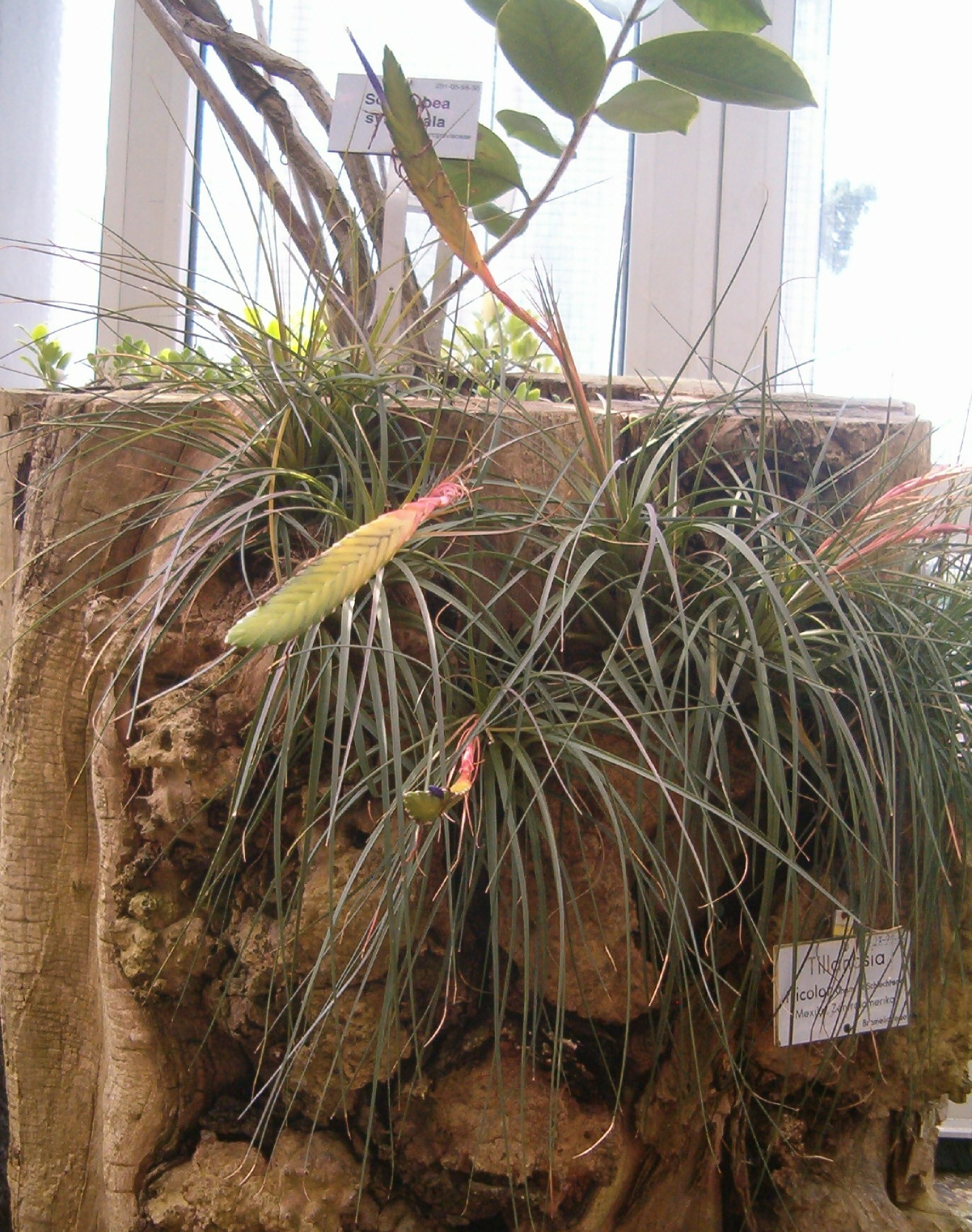 At Botanical Gardens Berlin-Dahlem Species Tillandsia tricolor